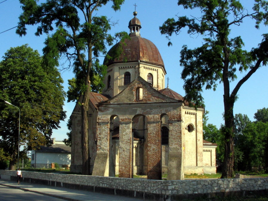 Cieszanów (Poland), Greek Catholic church